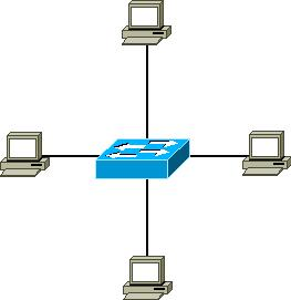 network topology